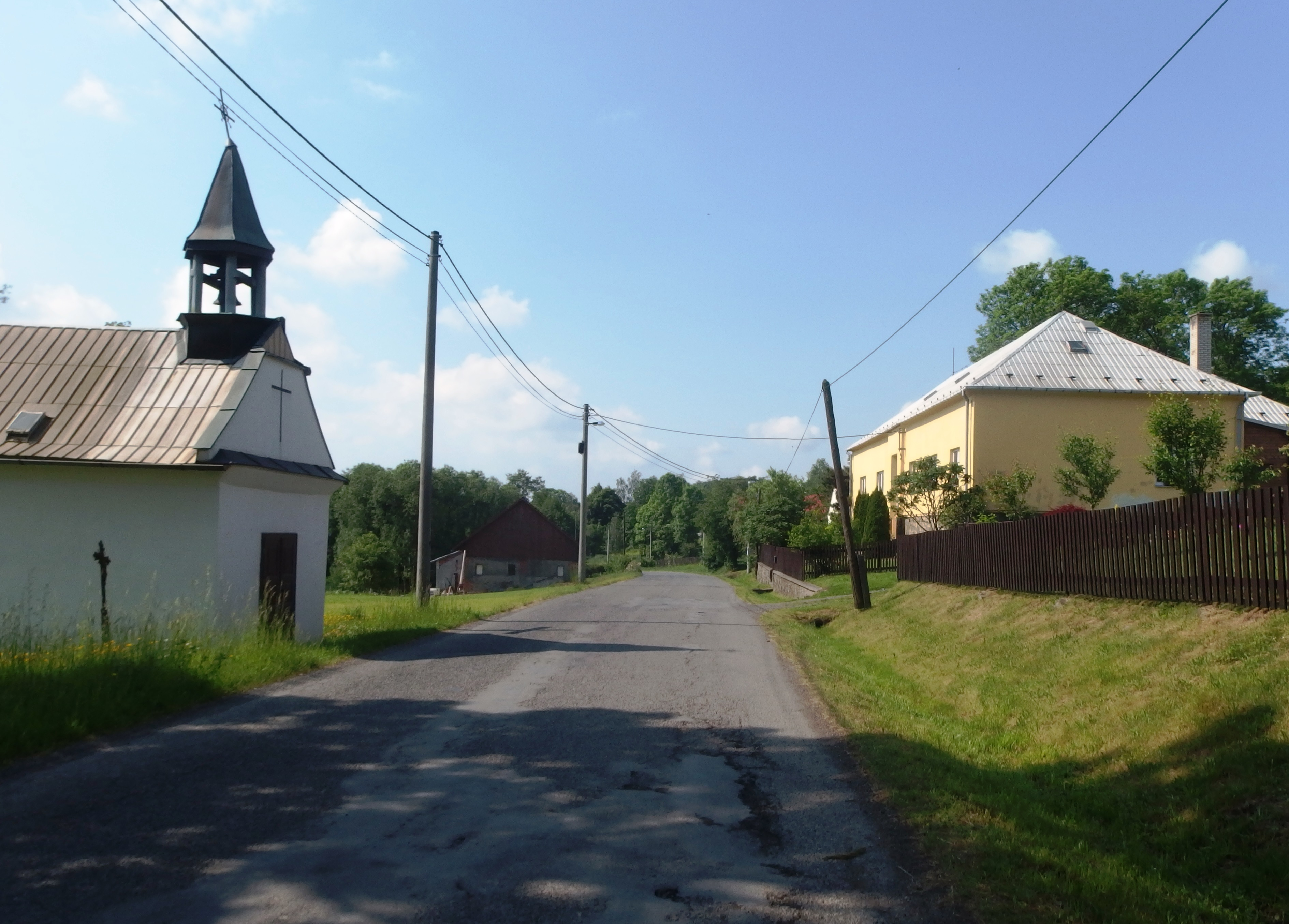 Potštát, Přerov District, Czechia, part Kovářov.